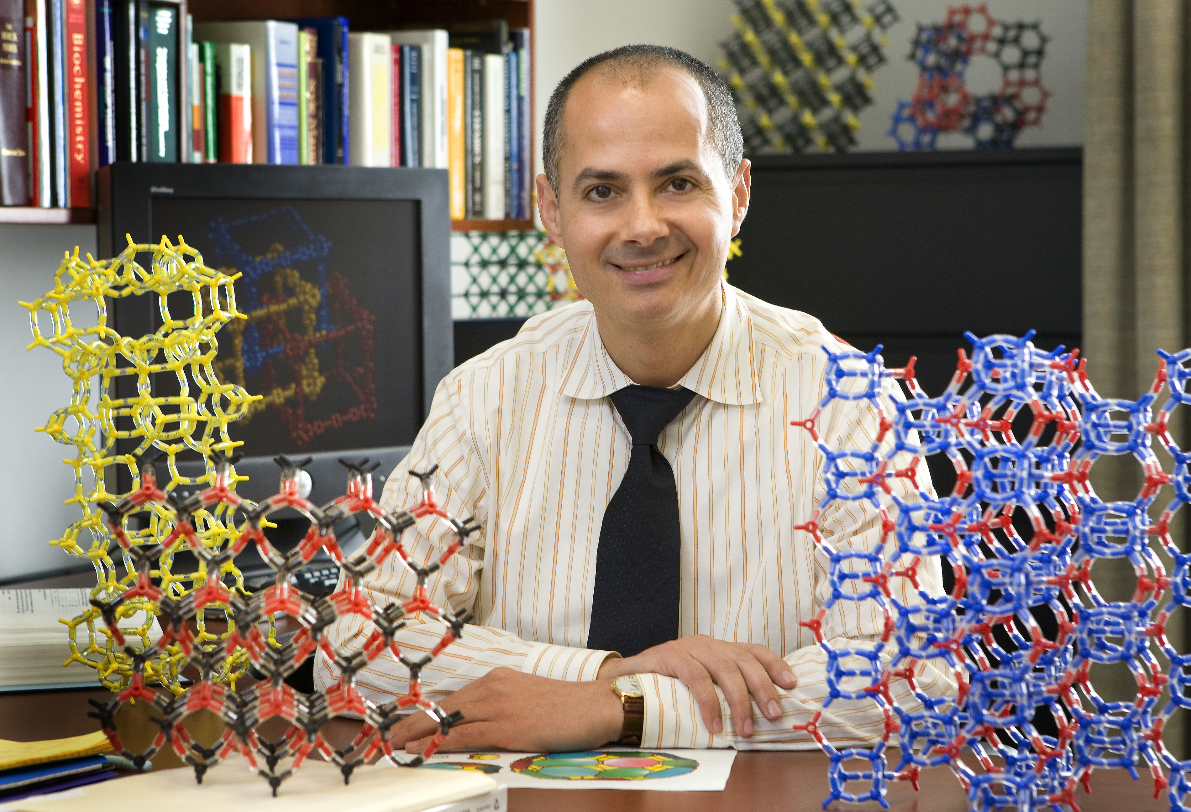 Omar M. Yaghi (Jordanian-American chemist)